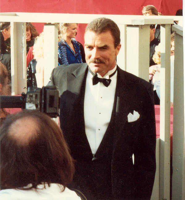 Tom Selleck on the red carpet at the 60th Annual Academy Awards, 4/11/88